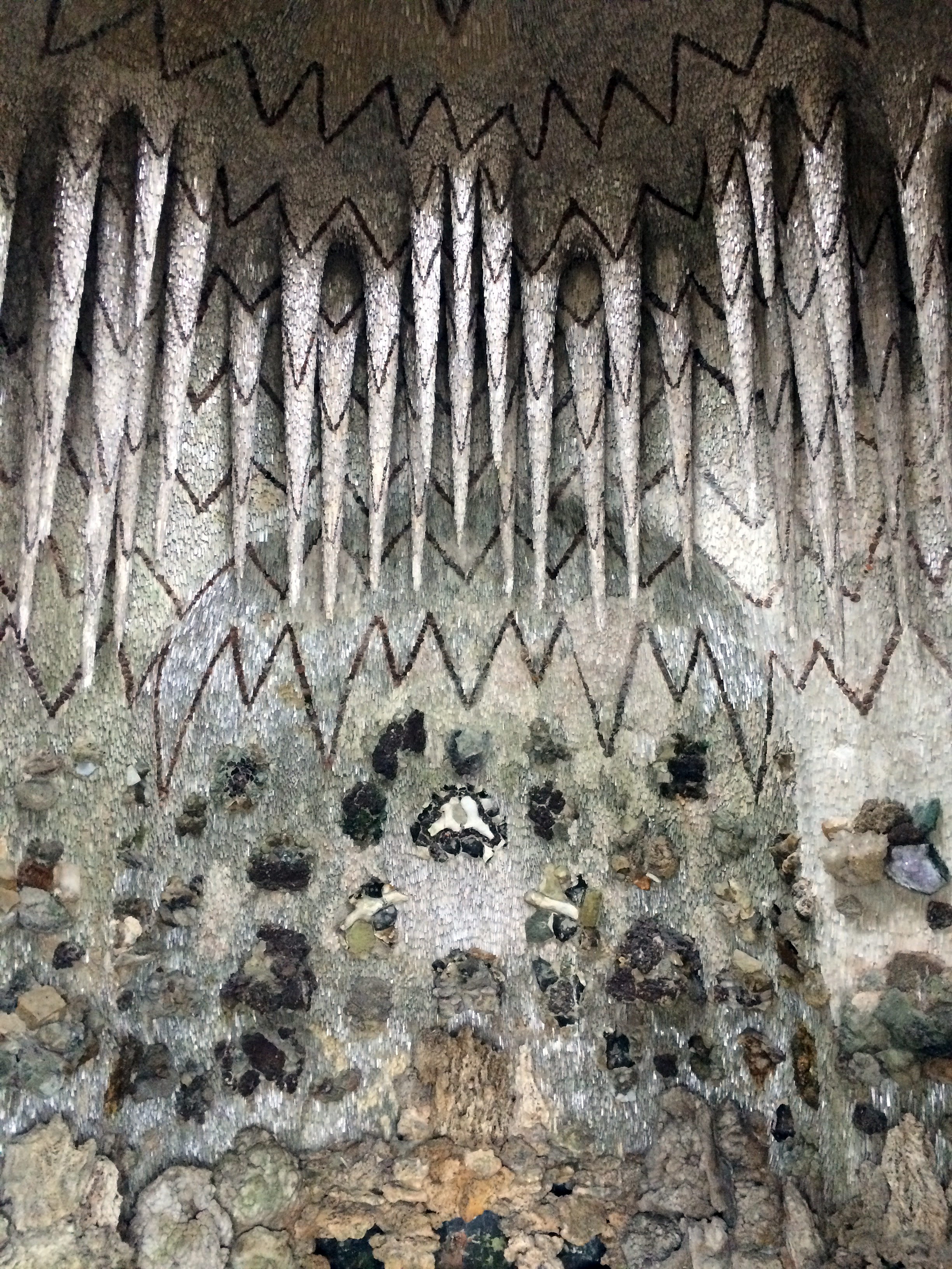 Grotto at Ascot Place, Berkshire, Grade I Listed, circa 1750 by Robert Turnbull.